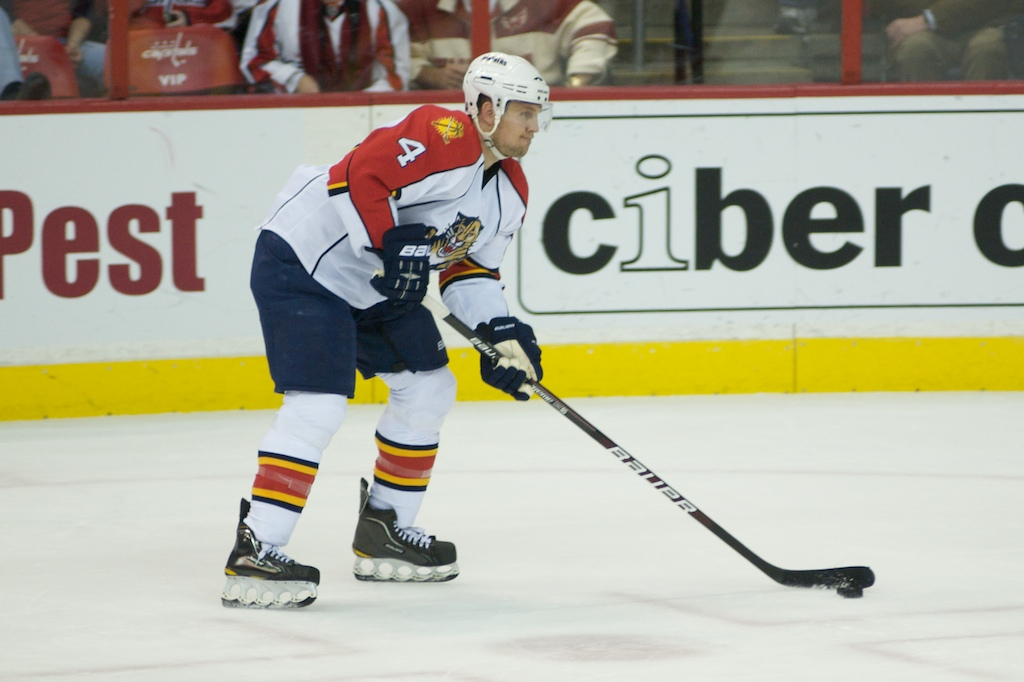 Dennis Seidenberg of the Florida Panthers during a game against the Washington Capitals.